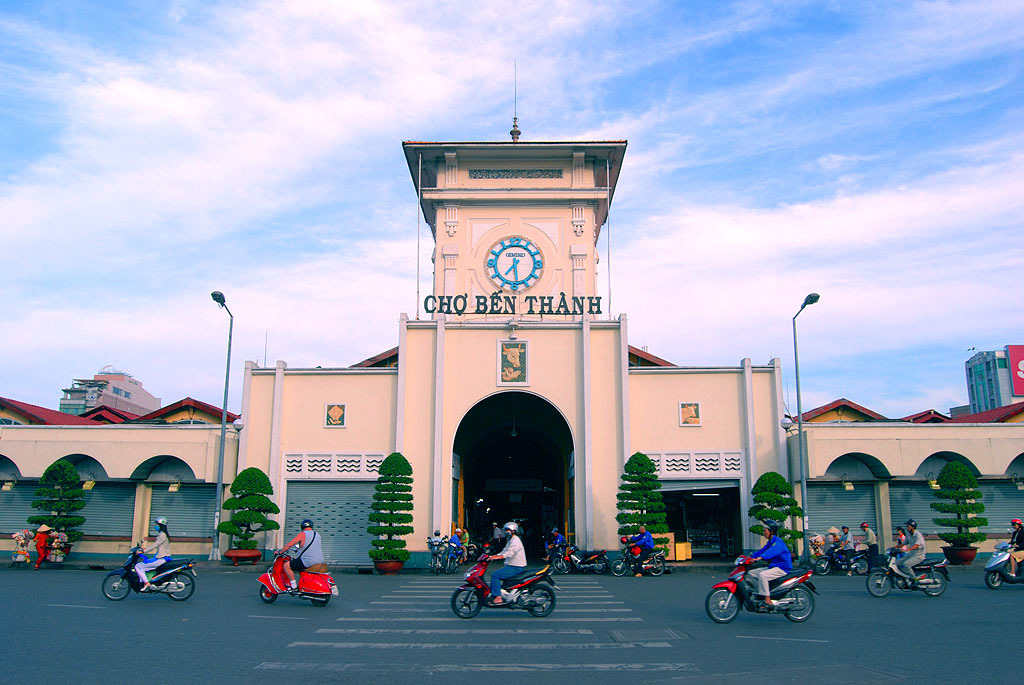 Bến Thành Market